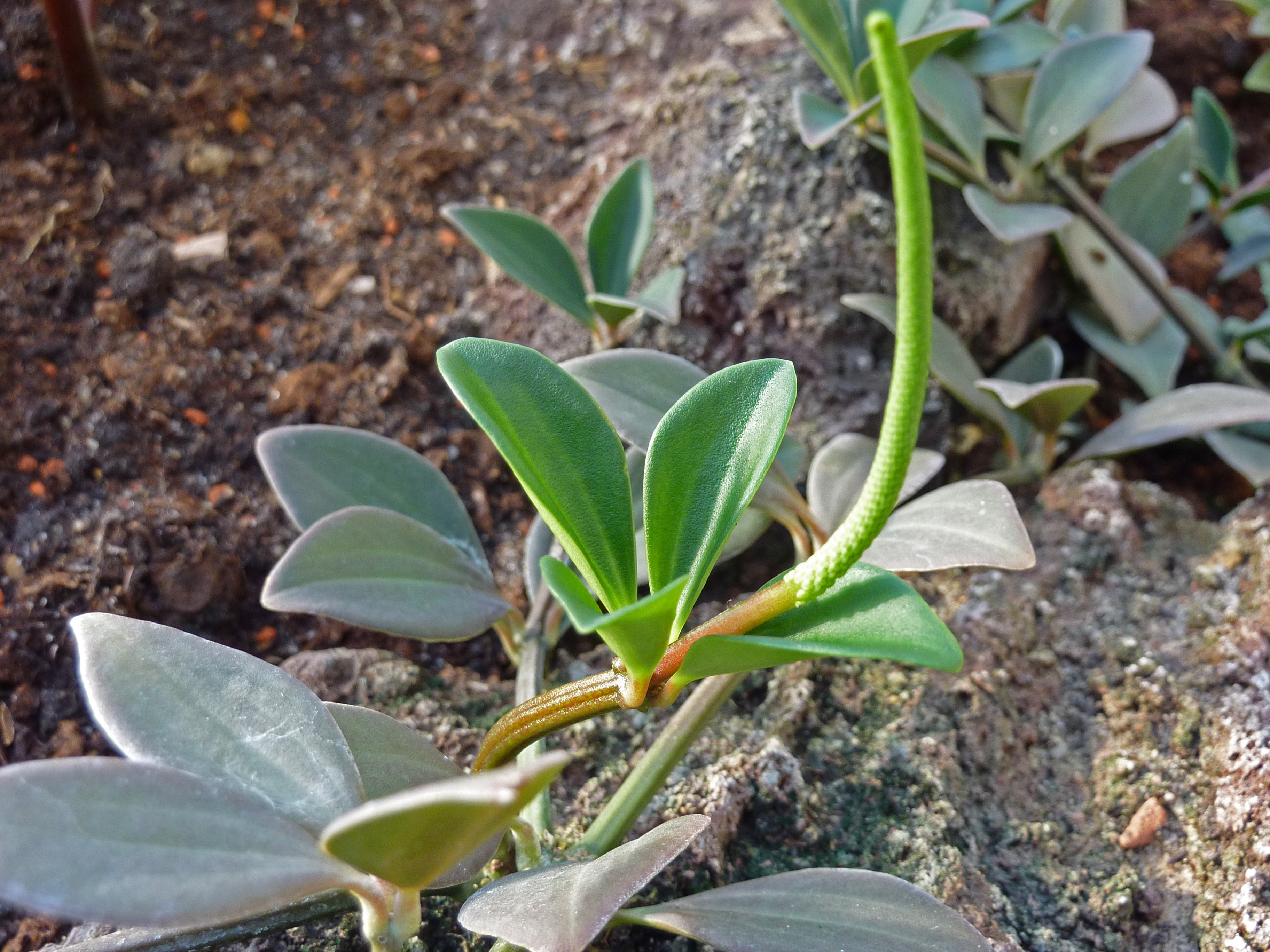 Peperomia pereskiifolia in the Botanical Garden, Berlin.